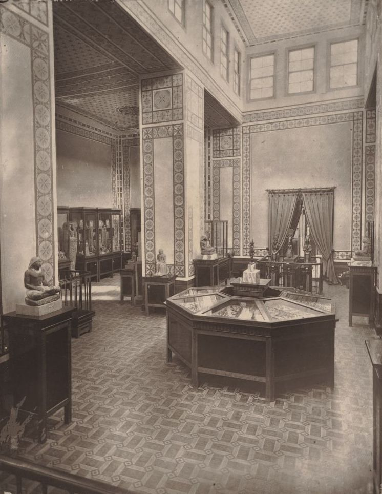 The principal nave of the center hall of the Museum. Black-and-white photograph.